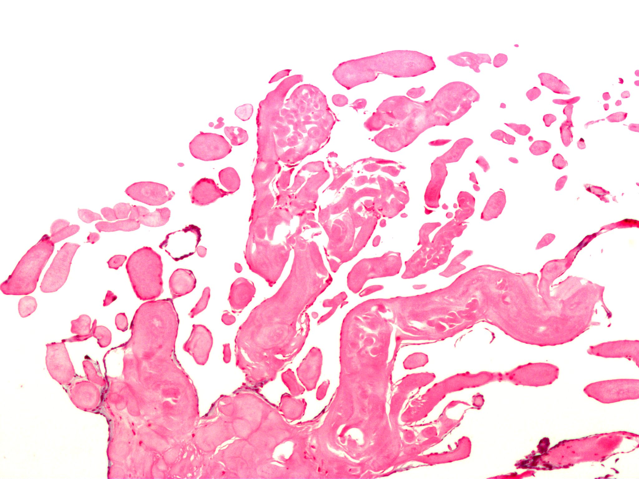 Micrograph of a papillary fibroelastoma of the aortic valve. H&E Stain. Low magnification. Description: branching avascular papillae with dense eosinophilic material (collagen) covered by endothelium. Related images PF - low mag. PF - intermed. mag.